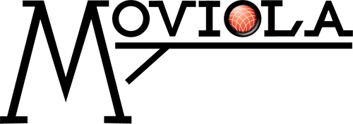 The current Moviola logo, a blend of the original 1923 trademarked logo and the new red ball inside the "o" of the Moviola.